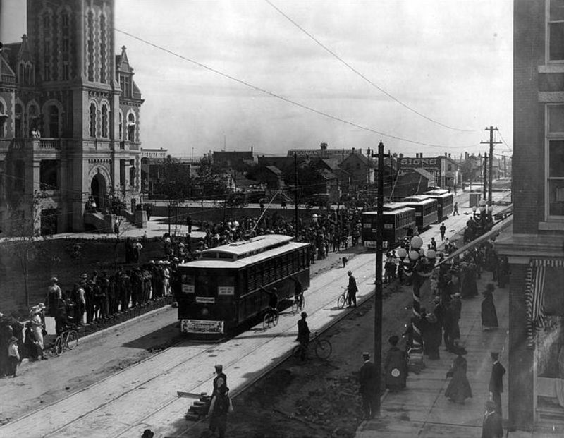 Inaugural run of the Regina Municipal Railway down 11th Avenue. Regina City Hall can be seen in the far left hand side of the photo.